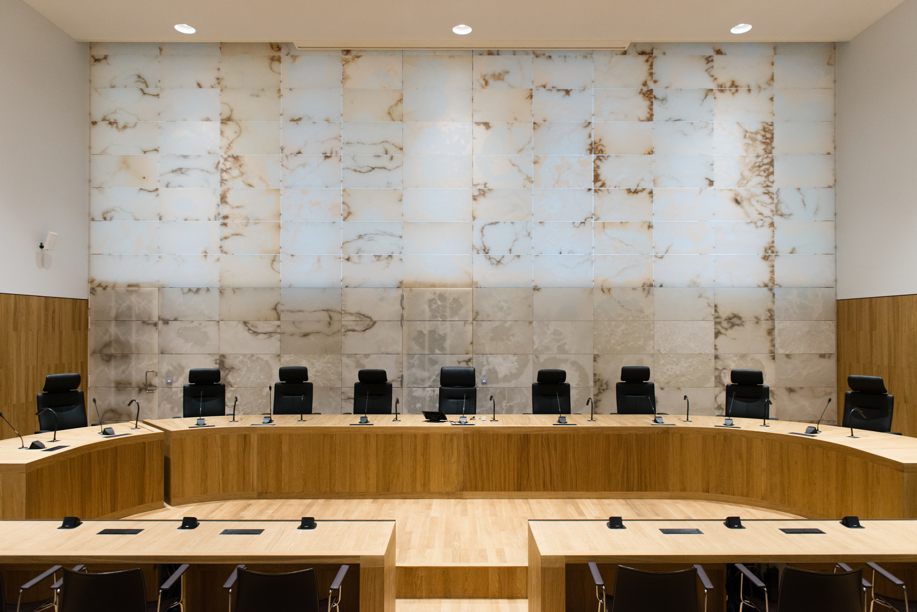 Supreme Court of the Netherlands in The Hague. The oficial opening if the new building is on 1 March 2016. It's design is by Kaan Architects.